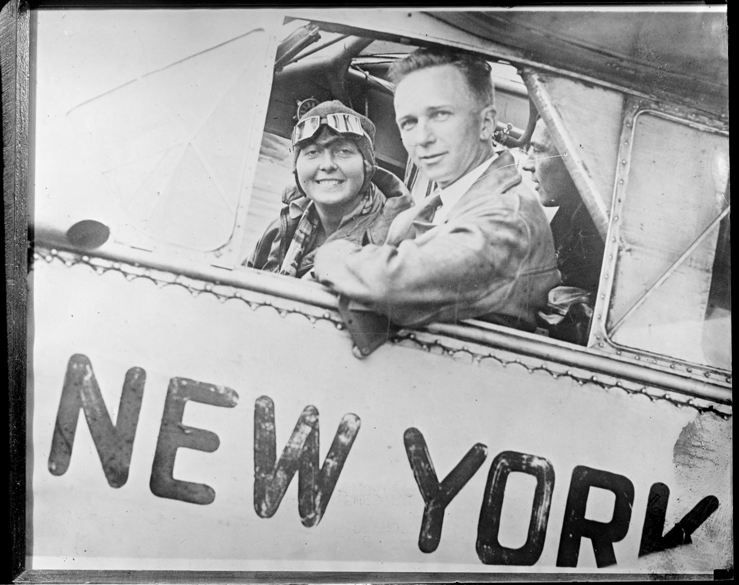 Clarence Chamberlain and Thea Rasche Caption published by Wide World Photos with the original photograph in 1927 [1]: " Photo from Wide World Photos. 502508- A distinguished passenger in the Columbia. -- Berlin, Germany. -- Clarence Chamberlin, New York to Germany aviator, takes Thea Rasche, Germany's most noted aviatrix who is herself planning a transatlantic flight, for a ride in the Bellanca monoplane "Columbia", conqueror of the Atlantic. 7-1-27 " Description by the Boston Public Library of this reproduction (somewhat confusing by their omission to mention the original photograph): " File name: 08_06_001594 Title: Clarence Chamberlain and Thea Rasche Creator/Contributor: Jones, Leslie, 1886-1967 (photographer) Date created: 1917 - 1934 (approximate) Physical description: 1 negative : glass, black & white ; 4 x 5 in. Genre: Glass negatives Subjects: Chamberlin, Clarence Duncan, 1893-1976 ; Air pilots; Airplanes Notes: Title from information provided by Leslie Jones or the Boston Public Library on the negative or negative sleeve.; Date supplied by cataloger. Collection: Leslie Jones Collection Location: Boston Public Library, Print Department Rights: Copyright © Leslie Jones. Preferred citation: Courtesy of the Boston Public Library, Leslie Jones Collection. "